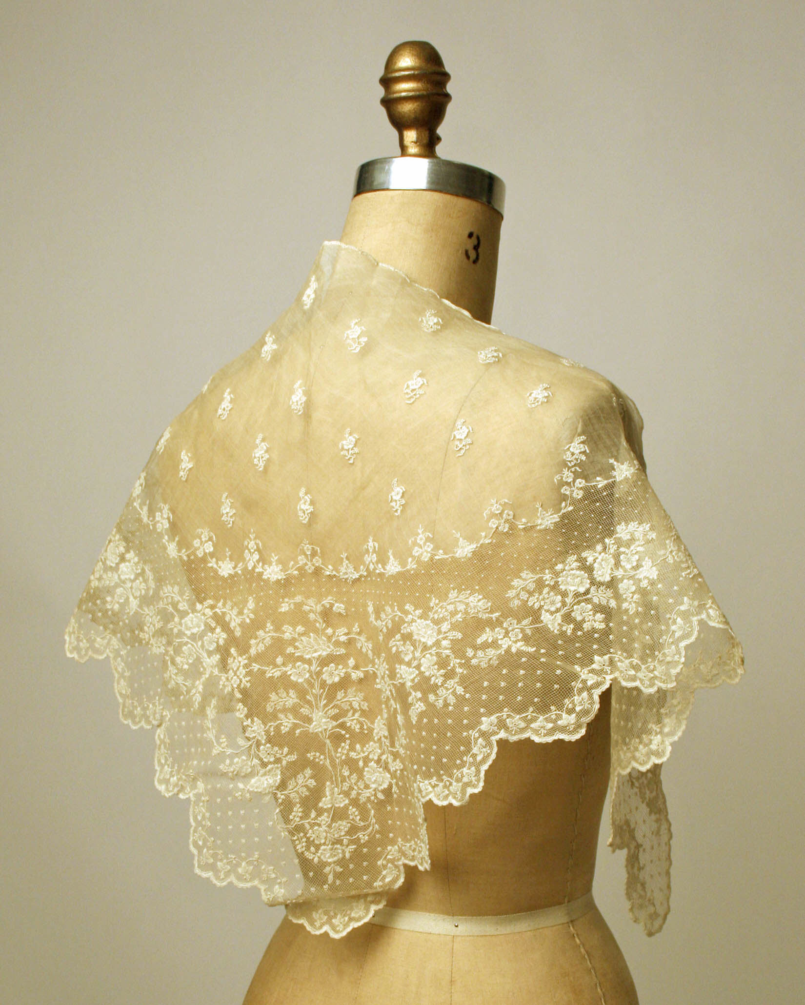 Philippine; Headcloth (Kerchief)